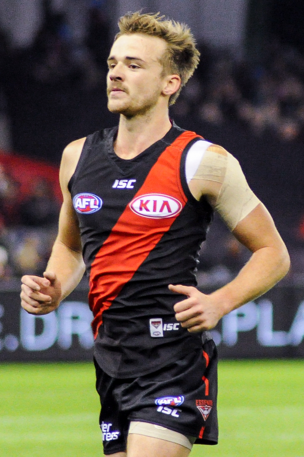 Martin Gleeson during the AFL round twelve match between Essendon and Port Adelaide on 10 June 2017 at Etihad Stadium in Melbourne, Victoria.